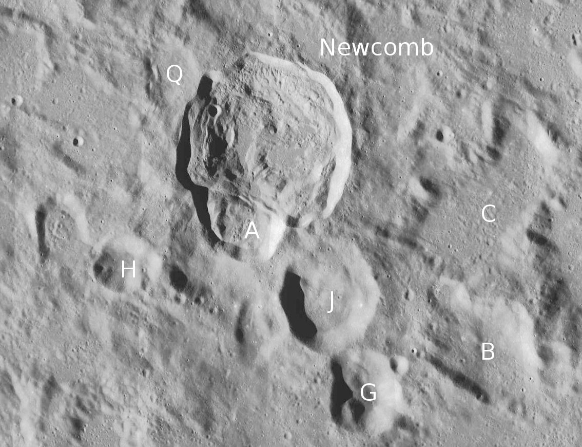 Crater Newcomb with satellite features (detail of LROC - WAC global moon mosaic)